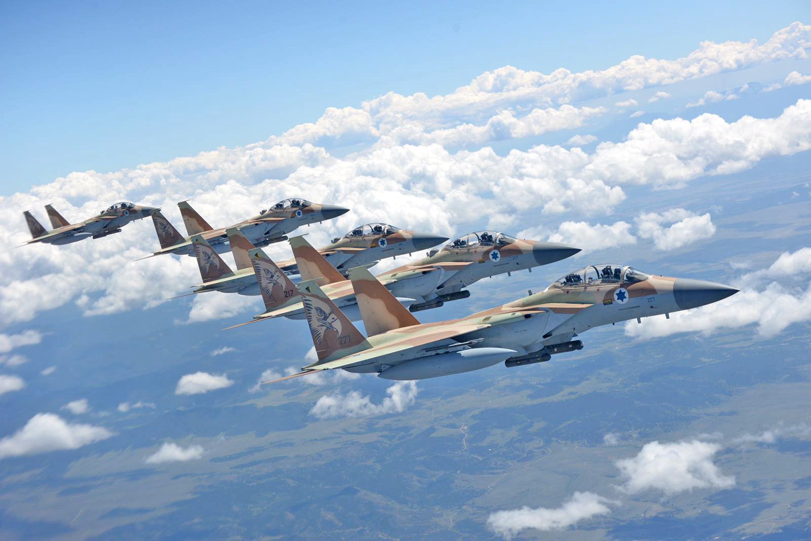 Israeli Air Force F-15I Ra'am warplanes, IAF Squadron 69